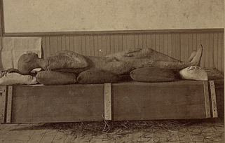 A cropped version of File:Solid Muldoon Stereoview.jpg - A stereoview of the Solid Muldoon hoax unearthed in Beulah, Colorado